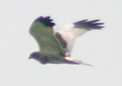 Pied Harrier Circus melanoleucos at/ near Hodal in Faridabad District of Haryana, India.